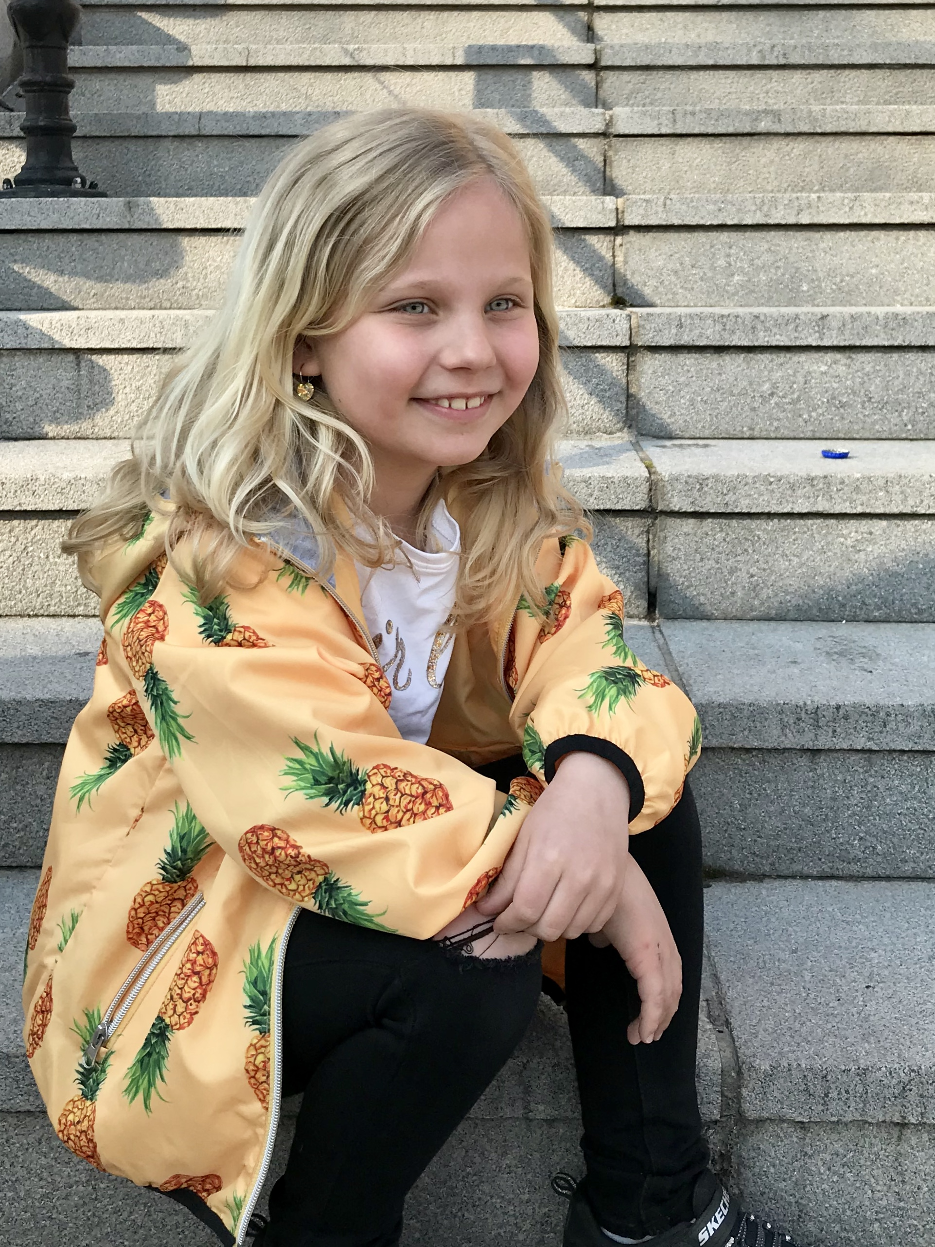 Maja2019